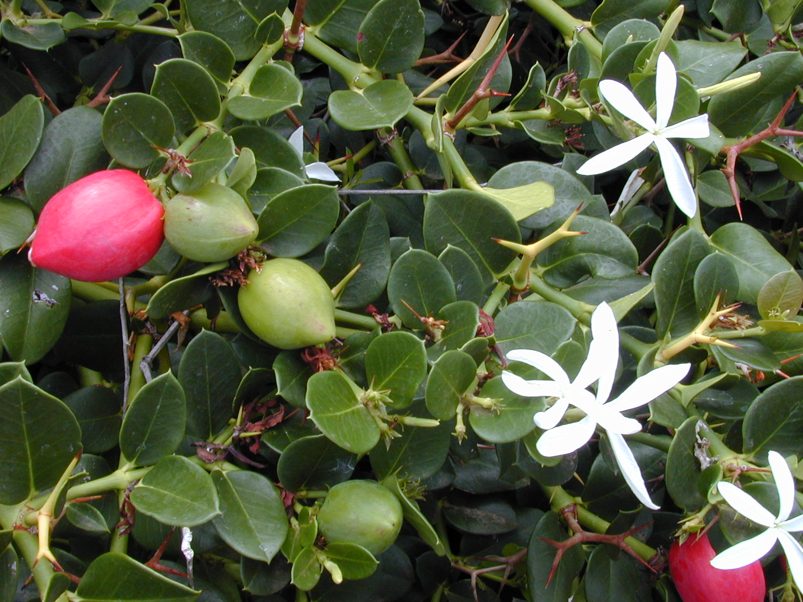 Carissa macrocarpa (fruit and flowers). Location: Maui, Kahului